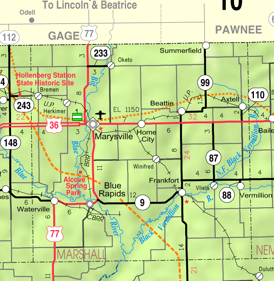 This map of Marshall County, Kansas, USA, is copied at a resolution of 300 pixels/inch from the original PDF file.